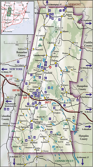 It's a map of the Berkshires